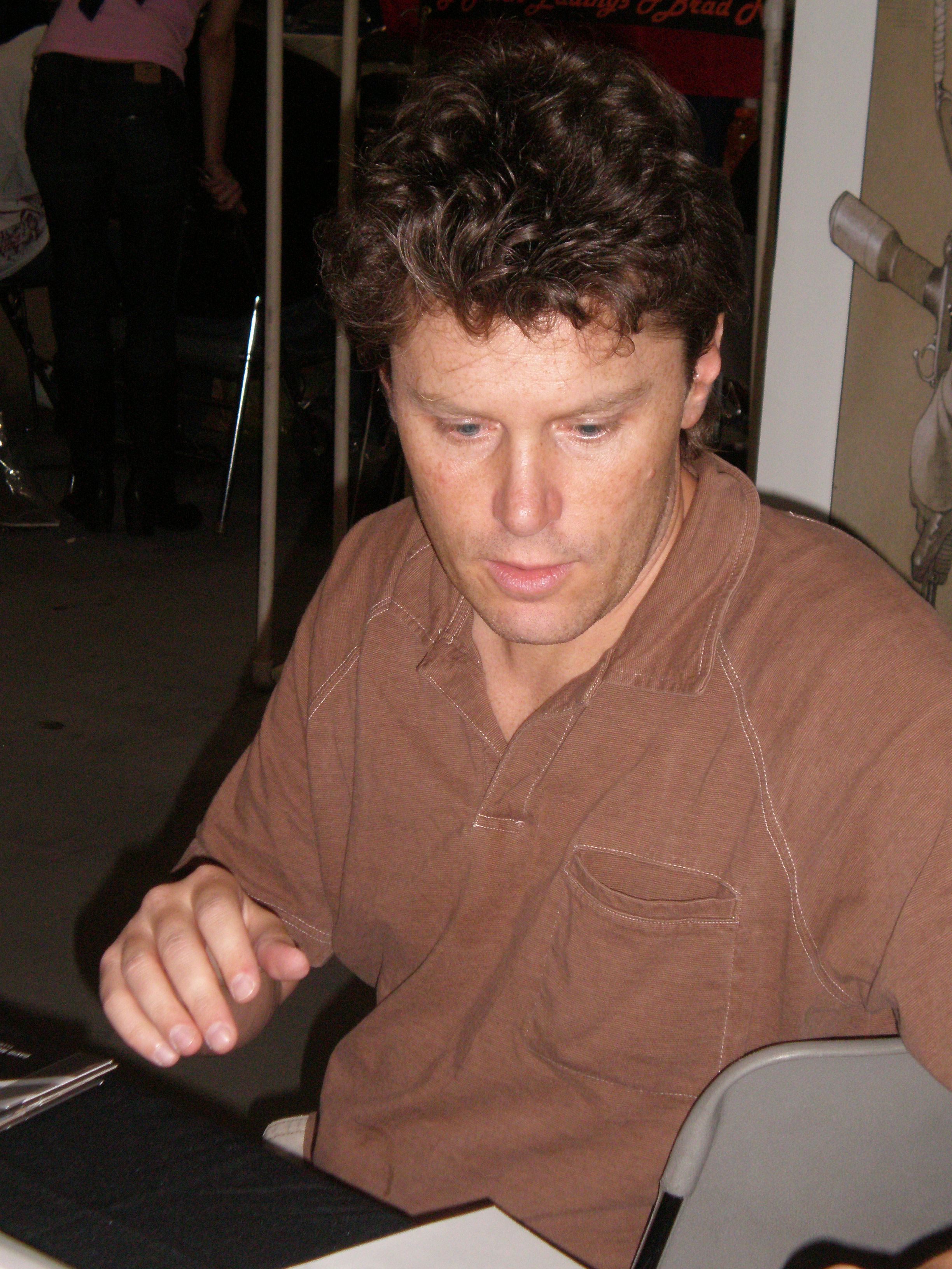 Travis Charest at Super-Con 2009 in San Jose, California.